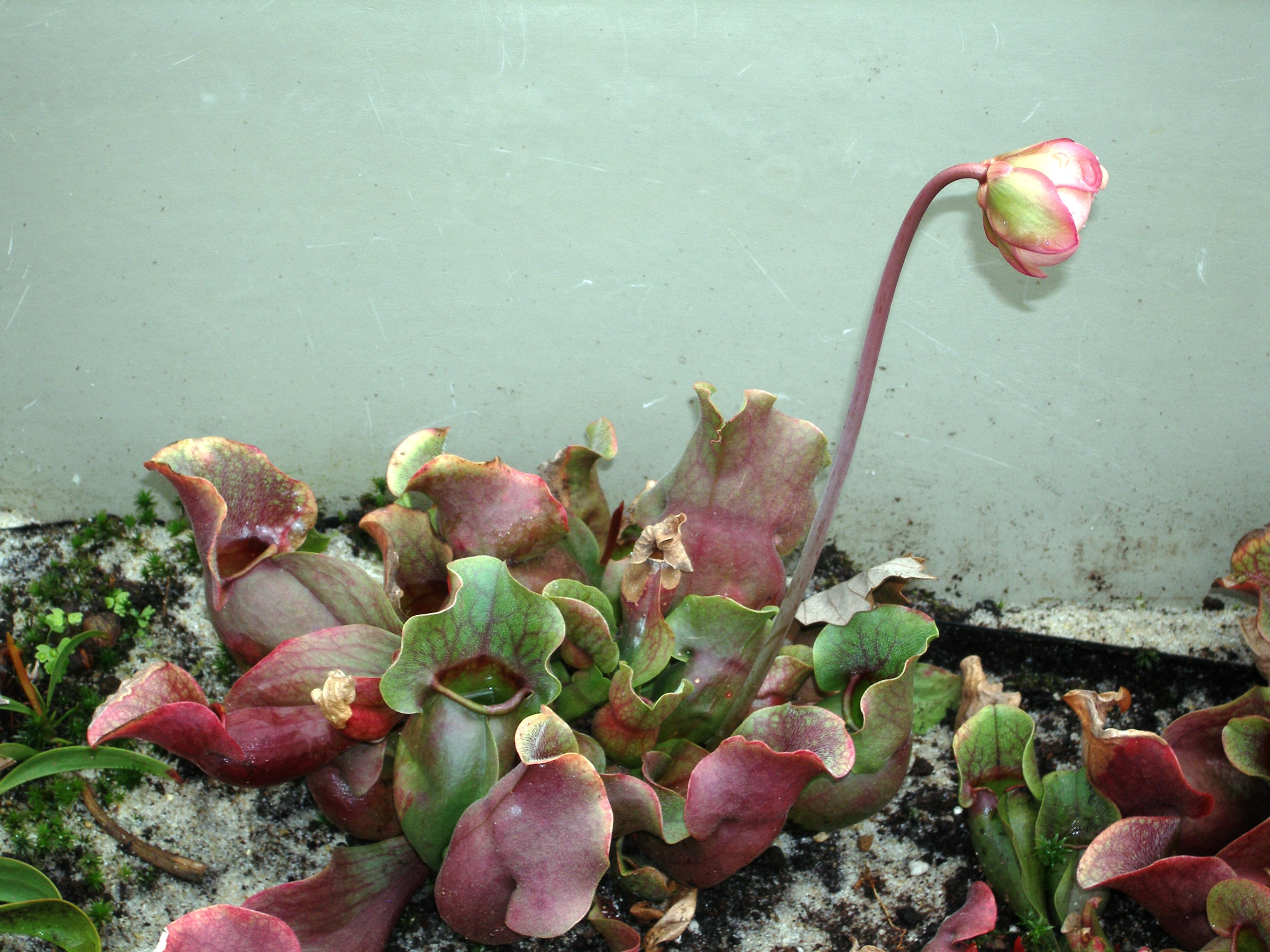 Specimen in cultivation at the Royal Botanic Gardens, Kew, United Kingdom.